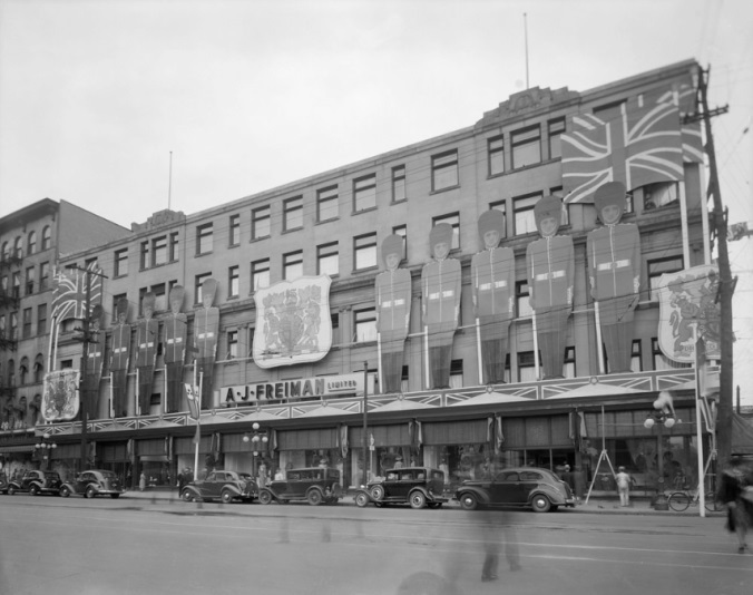 A.J. Freiman on Rideau, Ottawa, 1938 Freiman’s Department Store, Rideau Street, decorated for the 1939 Royal Visit.